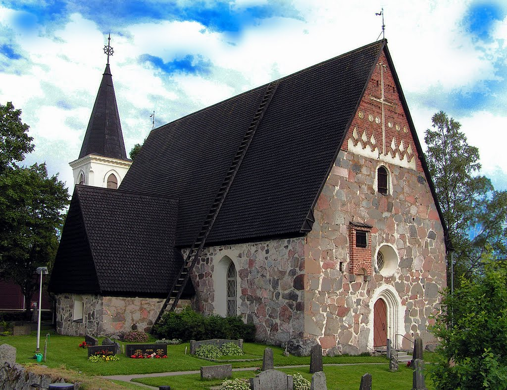 Vanaja Church in Hämeenlinna, since 1490, Finland